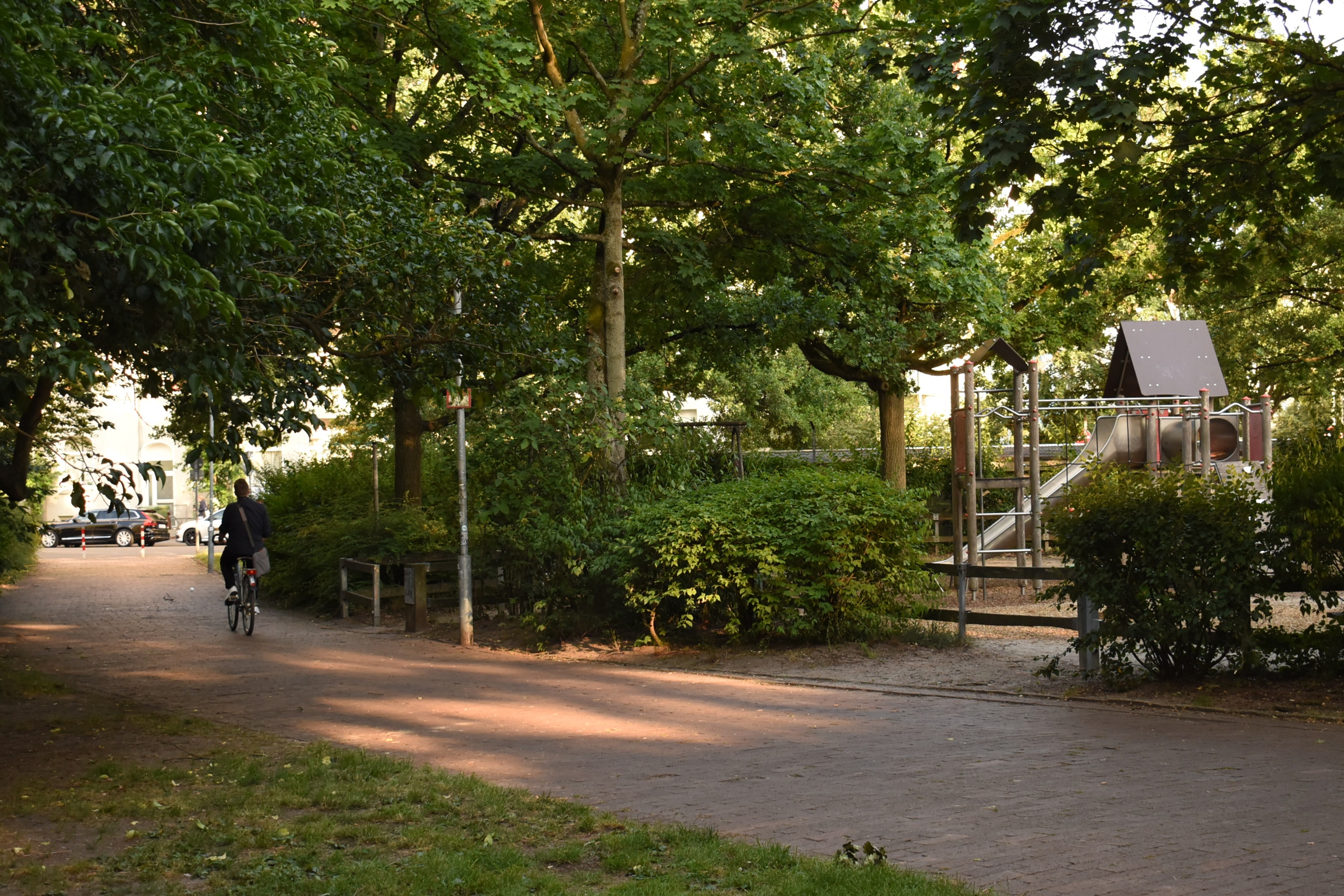 Wildermuth Lane in Hannover with children's playground, View to Bandel Street